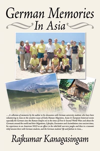 Front Cover of the book German Memories in Asia